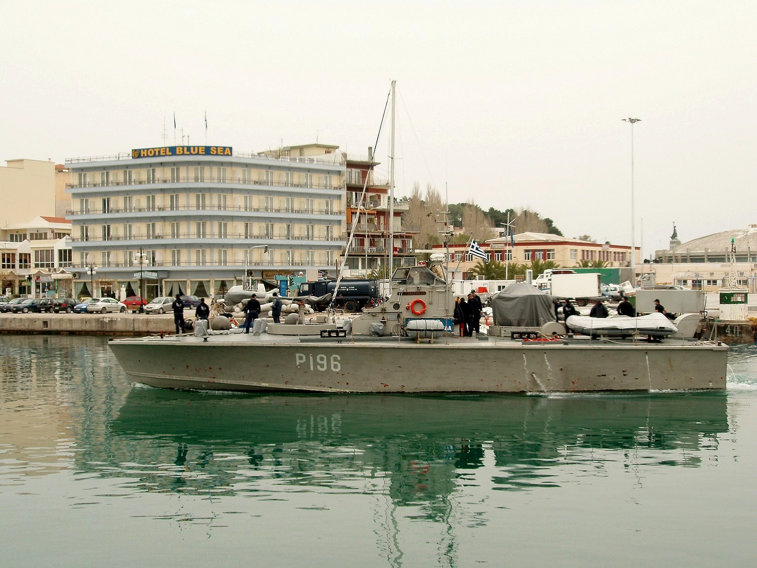 Nasty class Coastal Patrol Vessel HS Andromeda P-196 enters Mitillini Harbour.